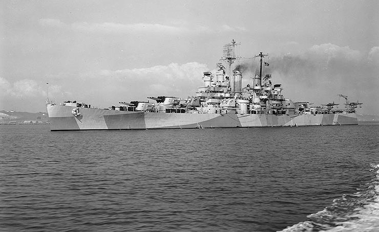 The U.S. Navy light cruiser USS Astoria (CL-90) off the Mare Island Naval Shipyard, California (USA), on 21 October 1944. Her camouflage is Measure 33, Design 24d.